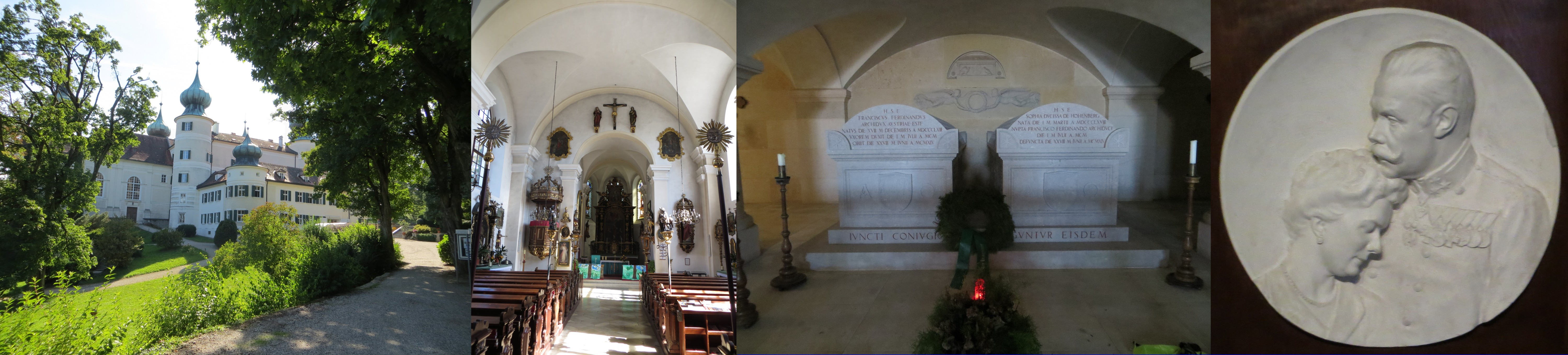 Arstetten Castle, its Chapel, the Crypt and the Couple interred there.